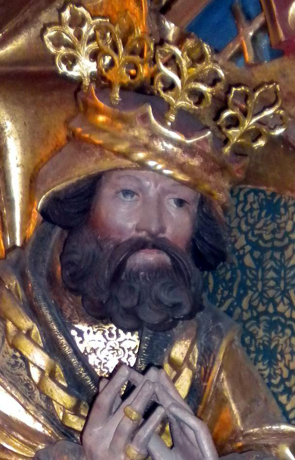 Sculpture of King Christian II of Denmark, Norway and Sweden by Claus Berg about 1530Place: Church of St. Canute’s, Odense, Denmark